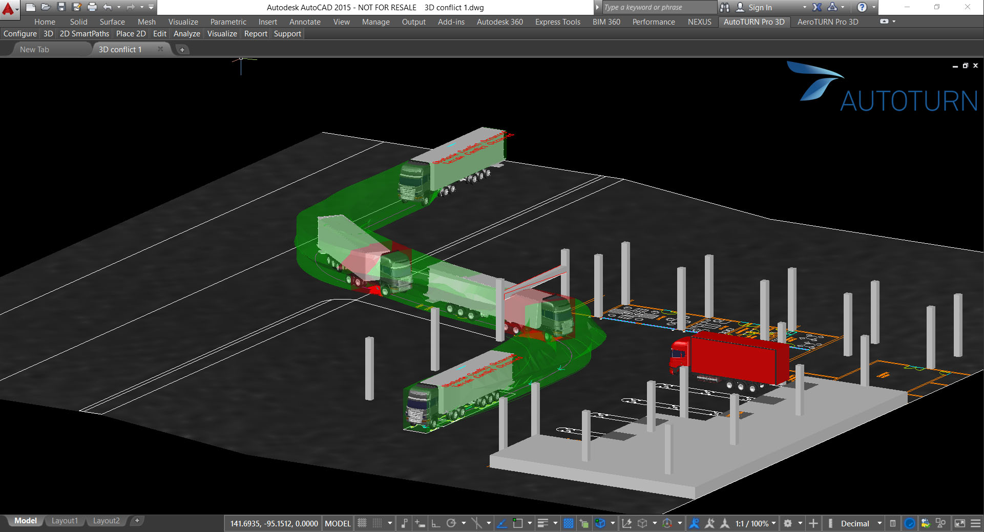 This image shows Vehicle Swept Path Analysis in 3D. It shows conflicts that may occur based on the vehicle's size, either on the road or in the air.